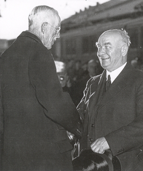 King Gustaf V of Sweden and the Swedish Primeminister Per Albin Hansson.